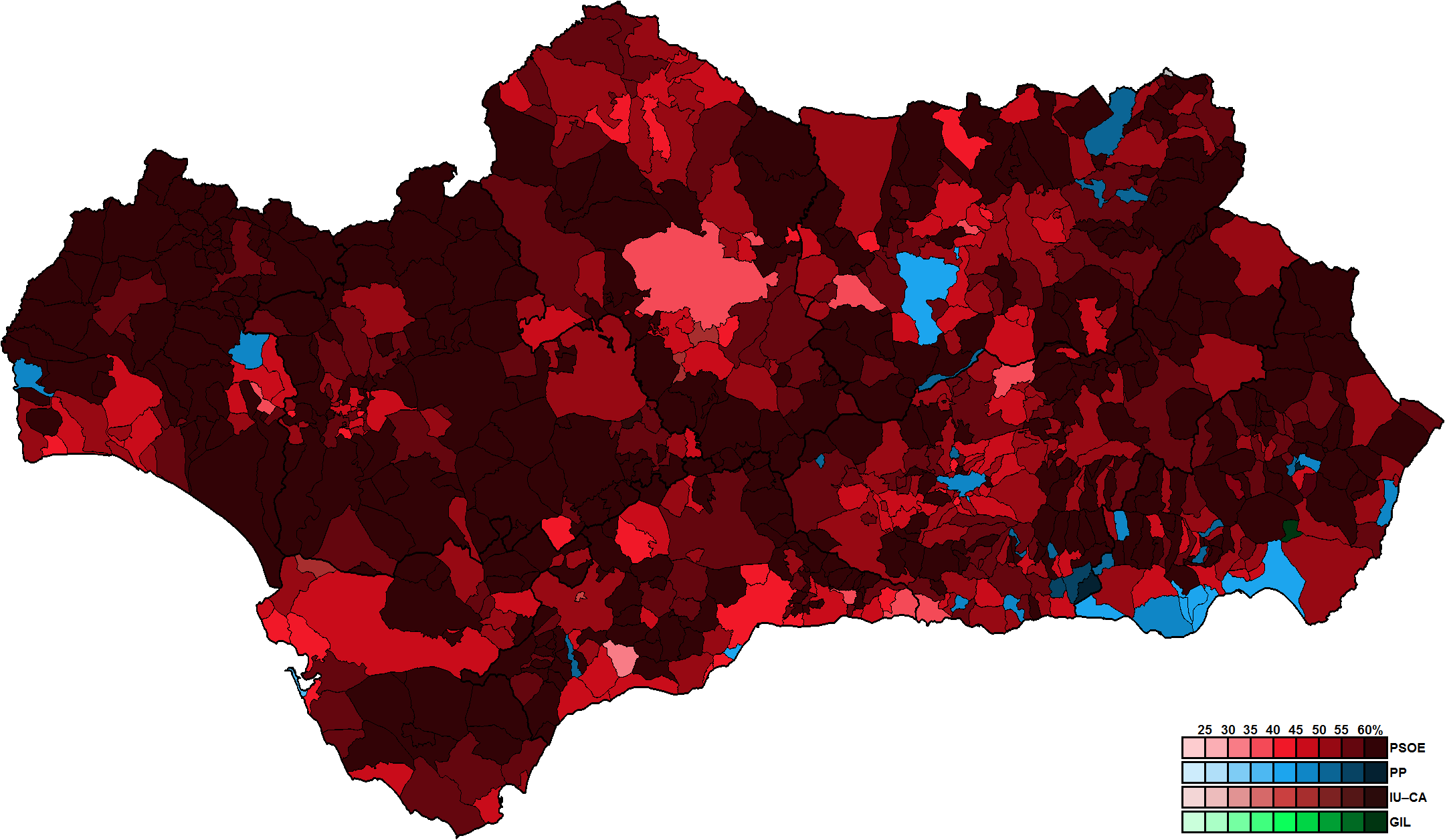 Most-voted party in Andalusia municipalities, showing vote share obtained, in the Spanish general election, 1993.